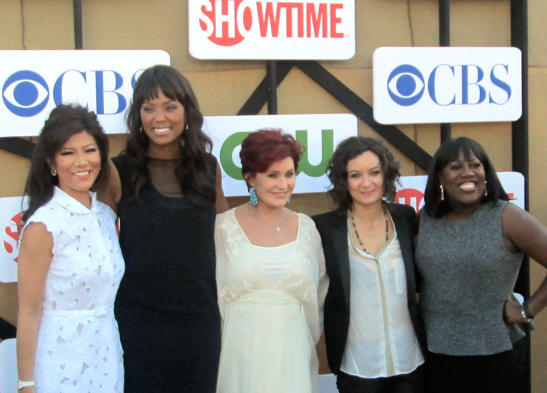 The Ladies of TV.